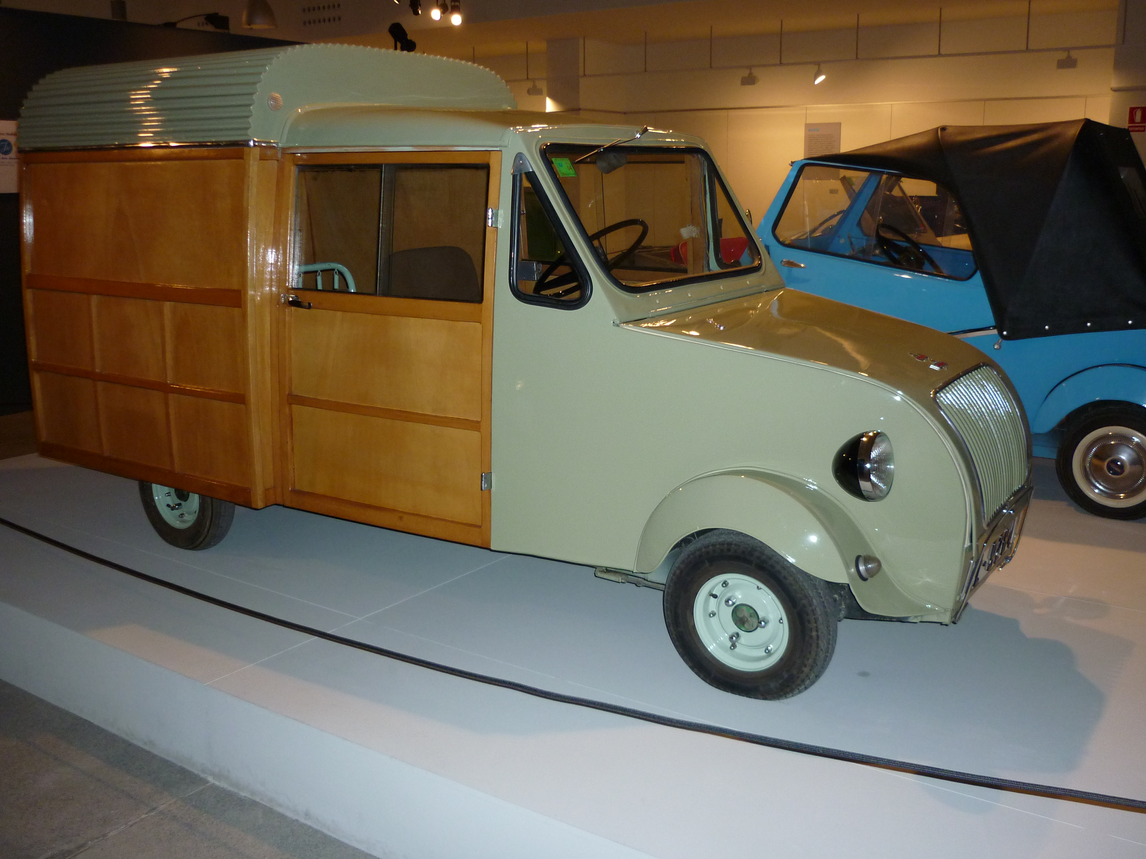 Biscúter Furgoneta 200-I (1958), microcar made in Catalonia